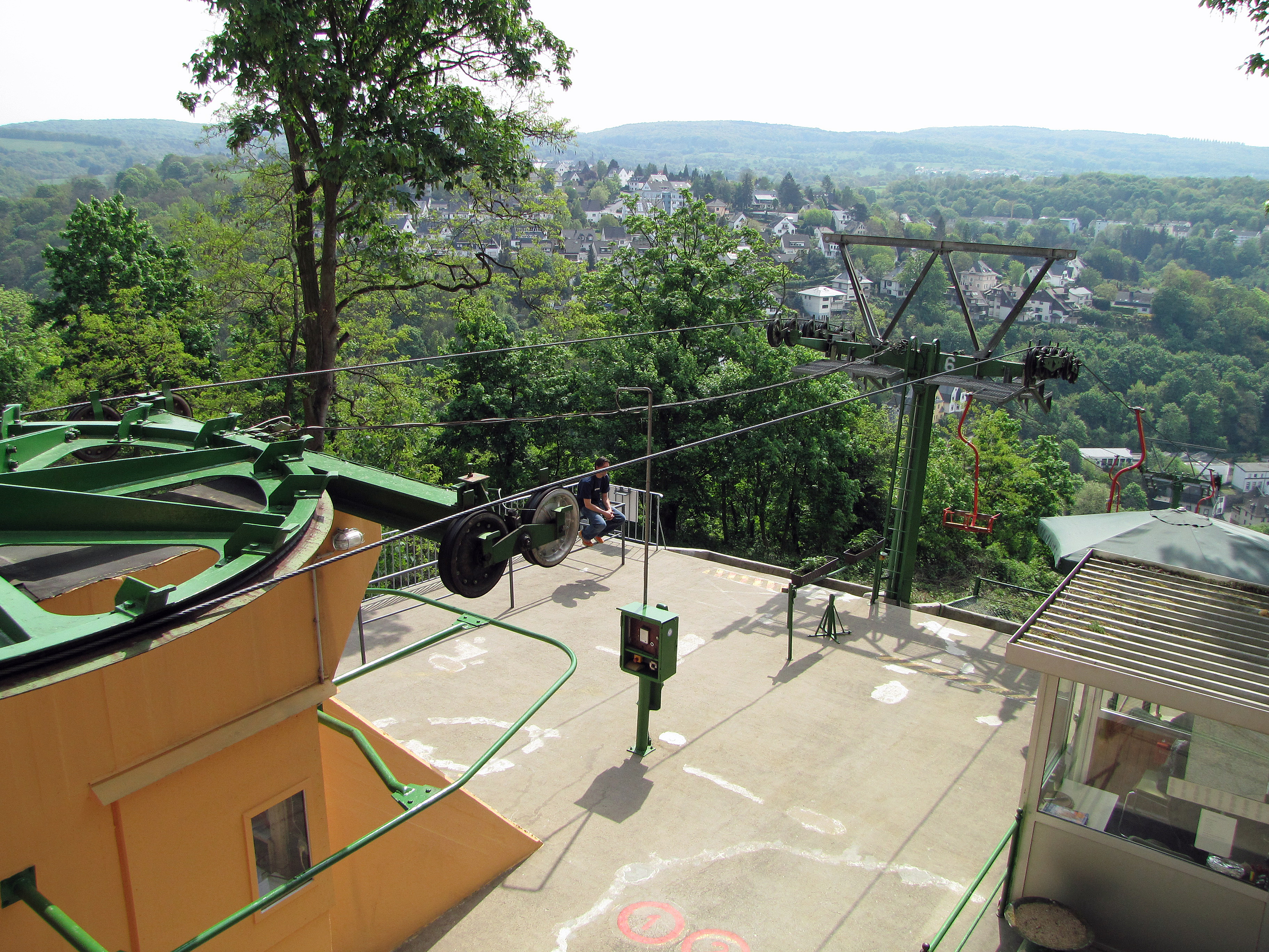 Sesselbahn Ehrenbreitstein in Koblenz